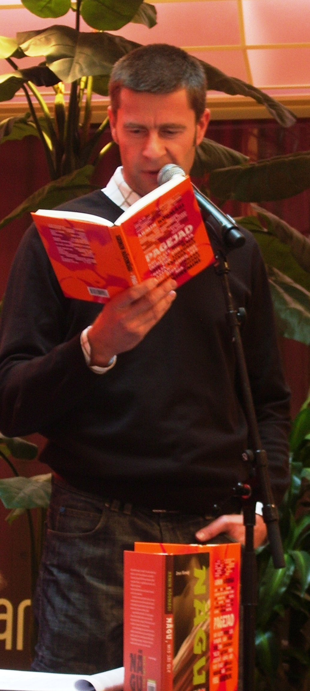 Armin Kõomägi is Estonian businessman and writer.